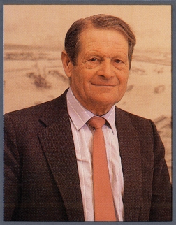 Allan Harry Beckett Portrait